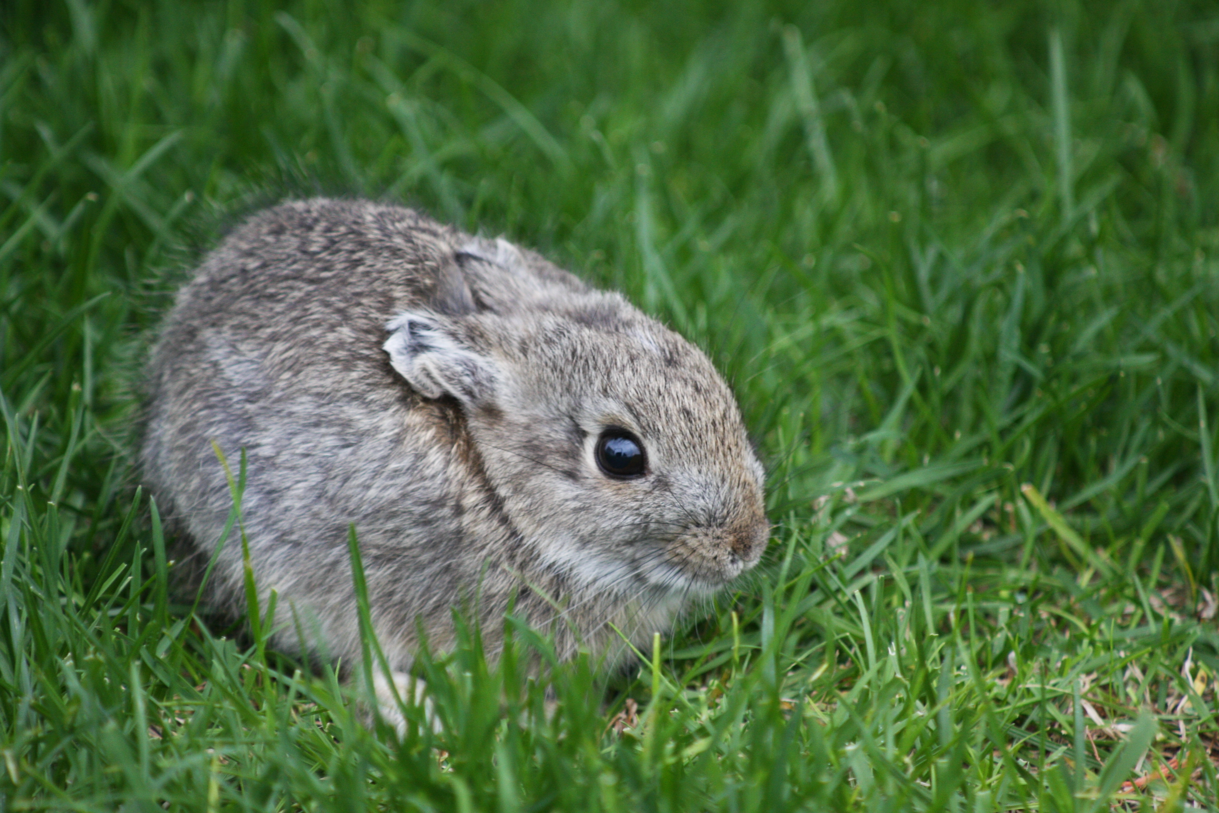 A pygmy rabbit (Brachylagus idahoensis